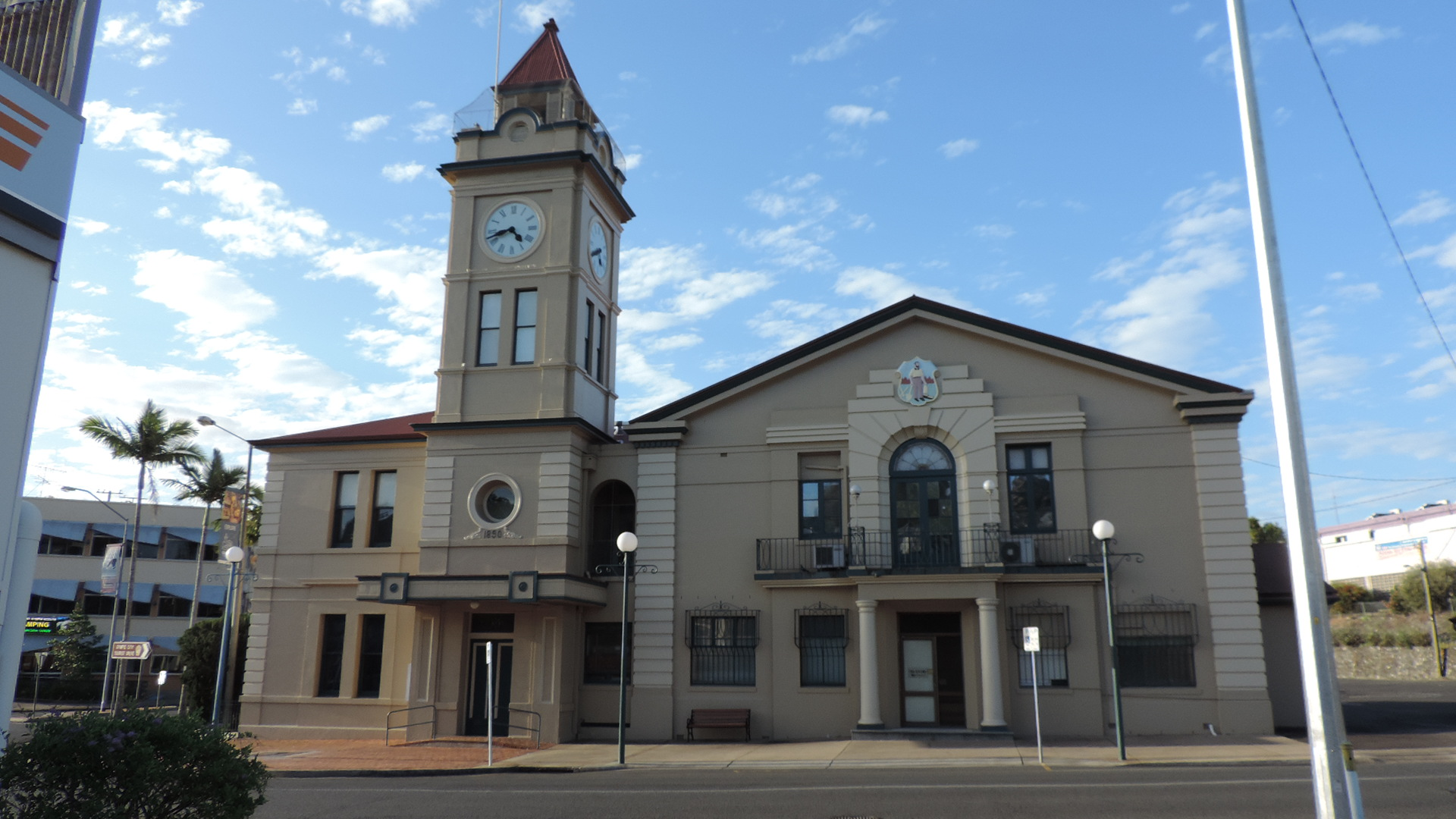 Gympie Town Hall, 2015